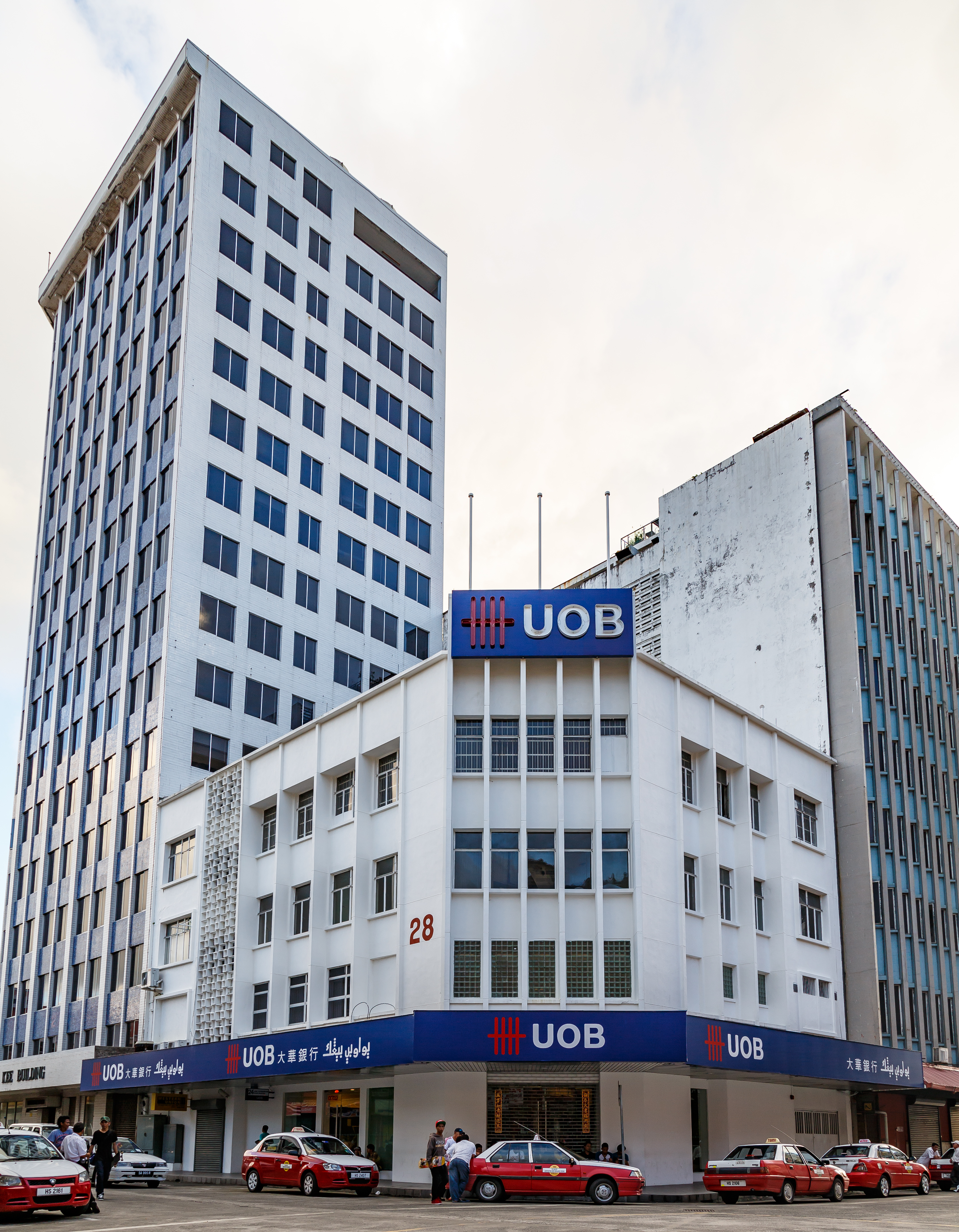 Sandakan, Sabah: Lai Piang Kee Building and United Overseas Bank (UOB) Sandakan Branch